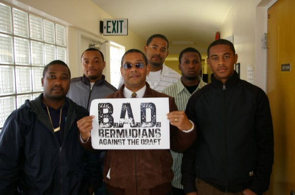 Photo of Bermudians Against the Draft founders